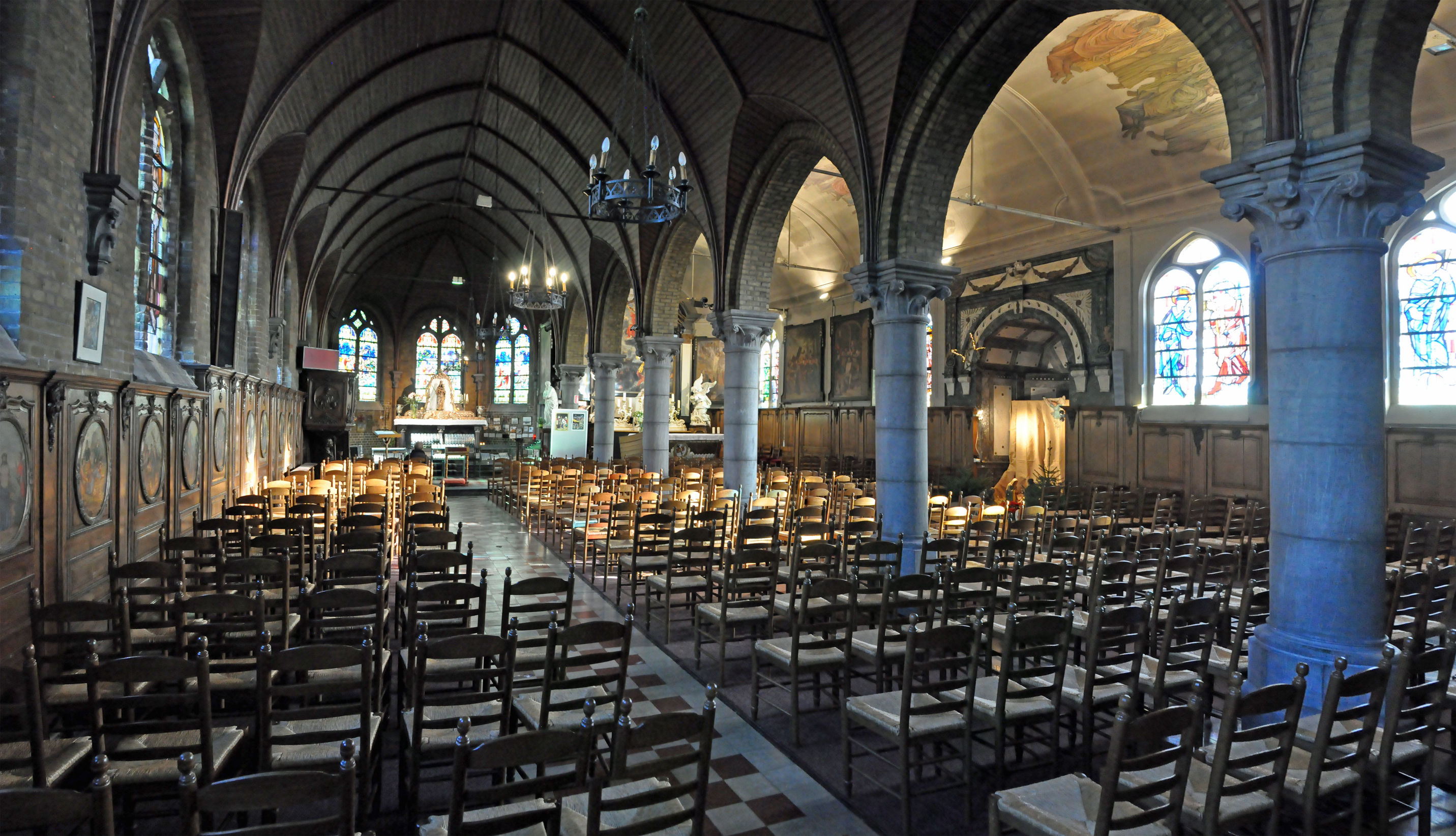 Mariakerke (Ostend, Belgium): St Mary's of the Dunes, interior view